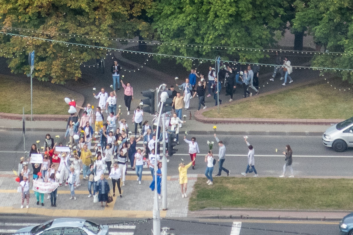 Local line of solidarity during mass protests. Minsk, Belarus